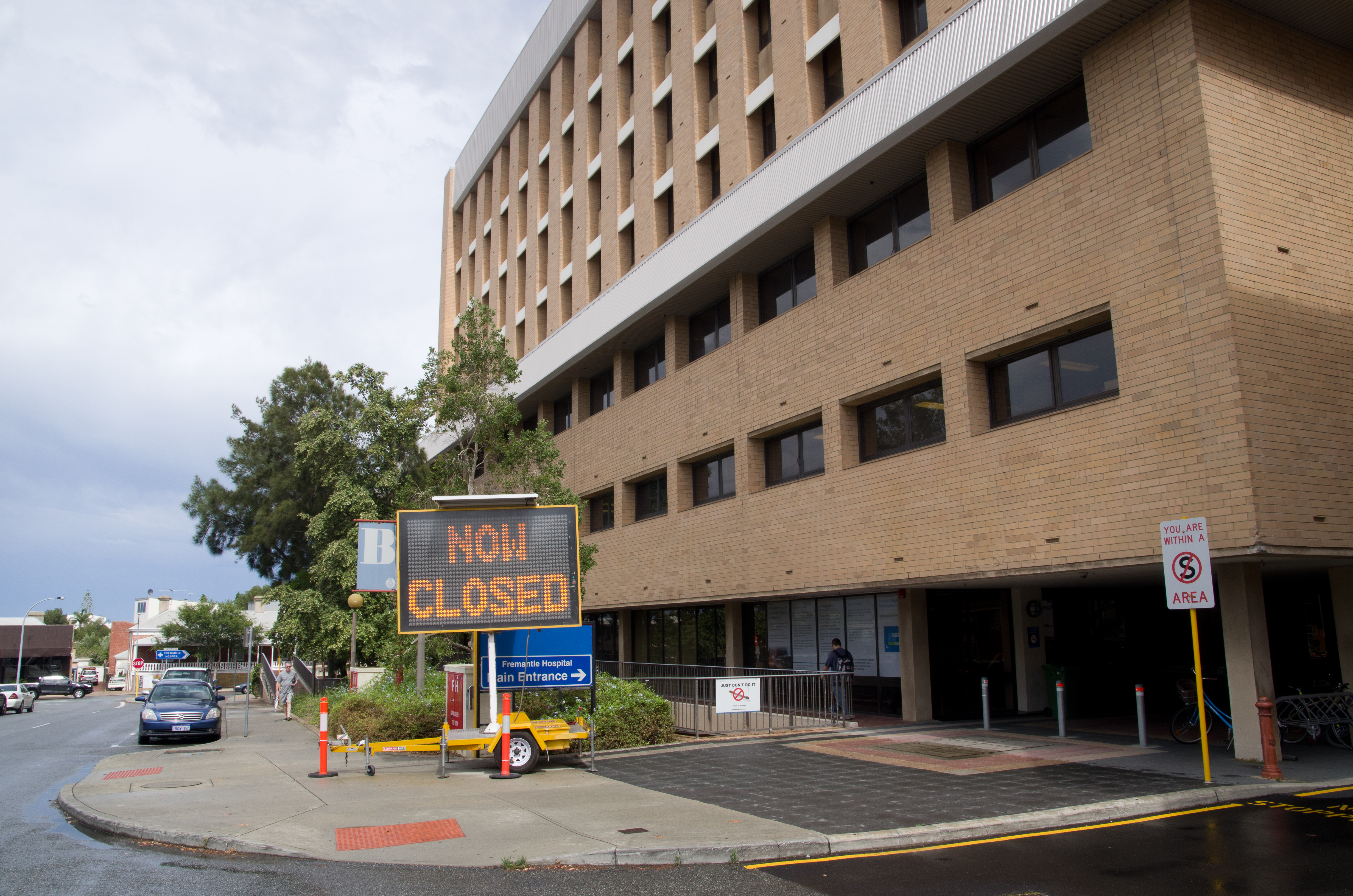 Closing of Fremantle Hospital's emergency department services 3 February 2015